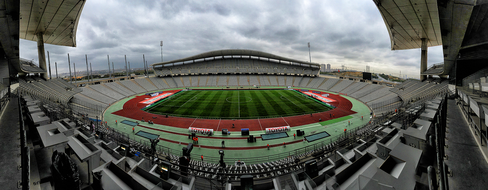 Atatürk Olympic Stadium in Istanbul, Turkey